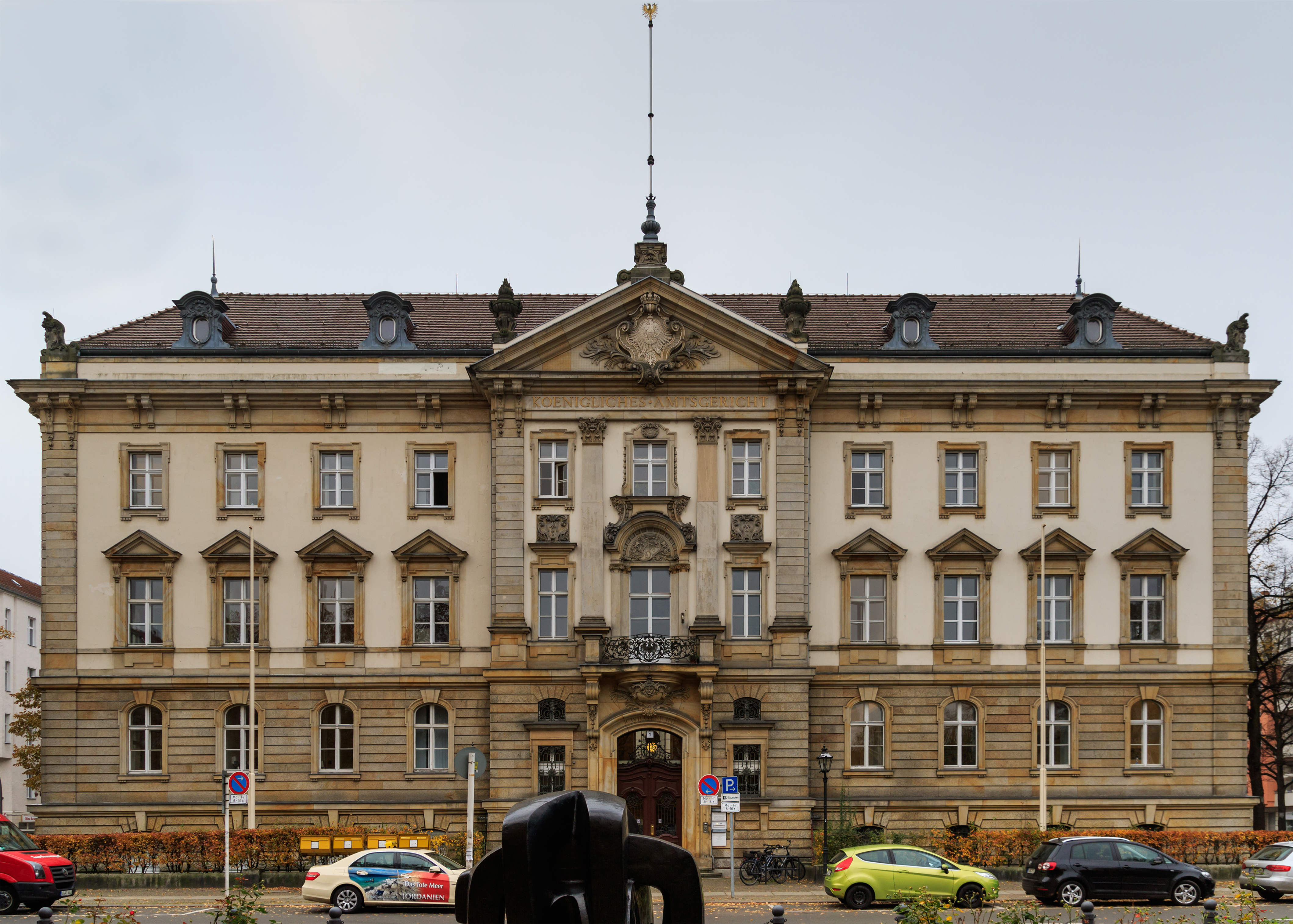 Courthouse in Berlin-Charlottenburg